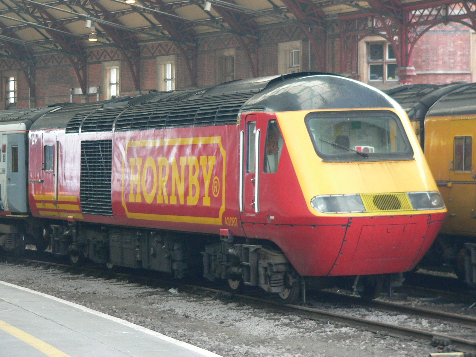 Cotswold Rail HST powercar 43087 in Hornby railways livery at the northern end of the secondary through road between platforms 3/4 and 5/6 at Bristol Temple Meads railway station.